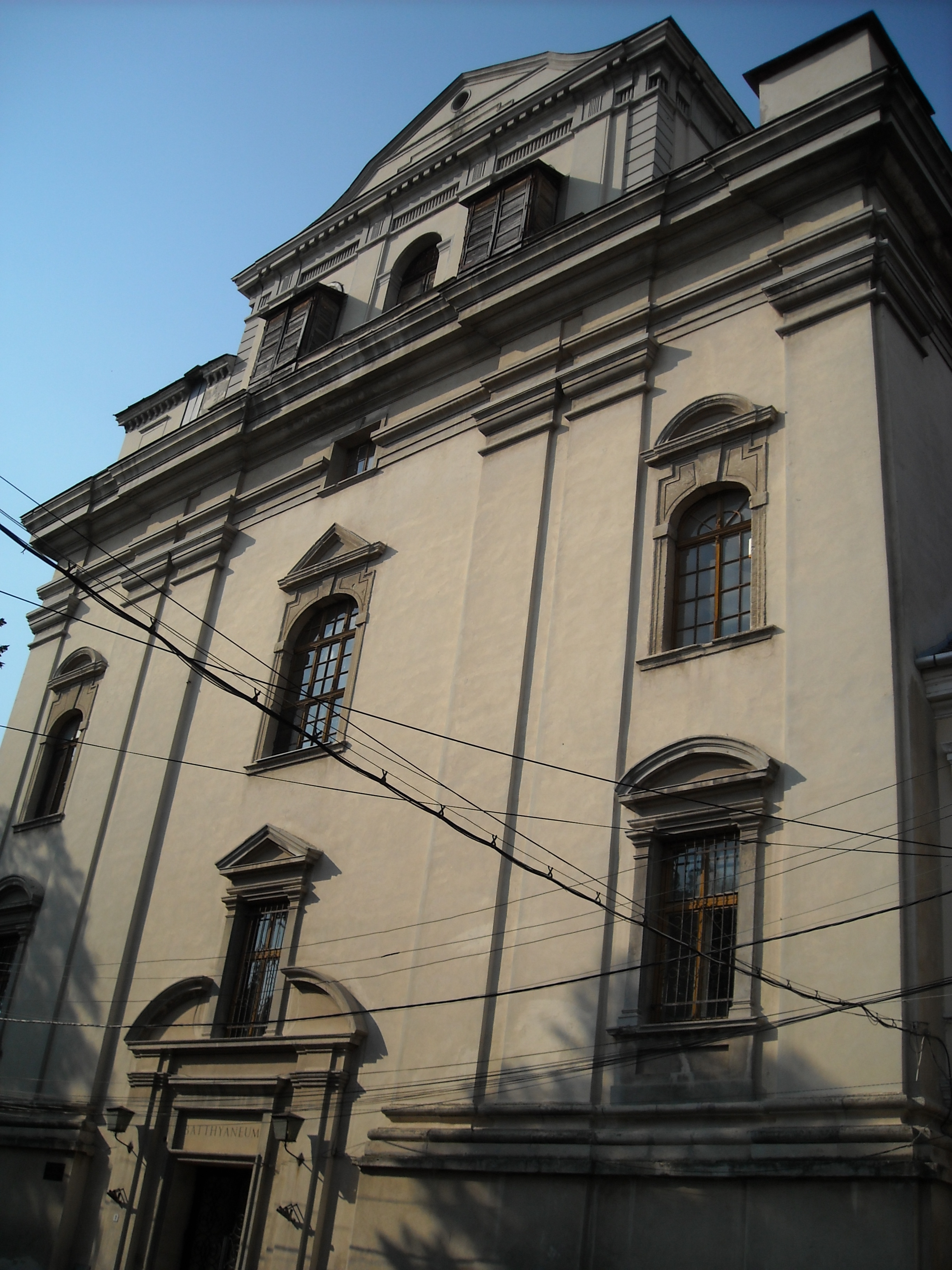 the Batthyaneaum library in Alba Iulia (Gyulafehérvár)